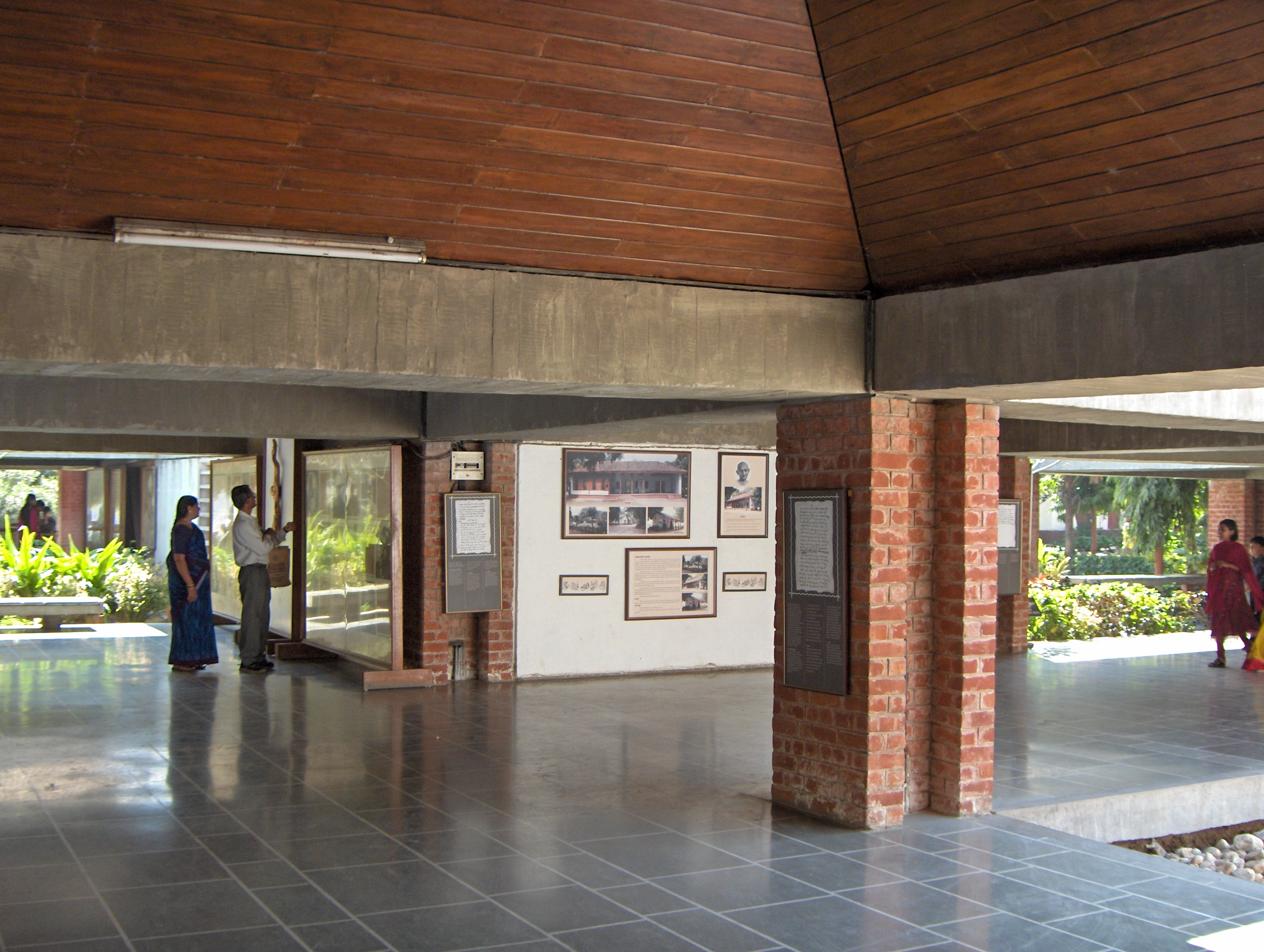 Sabarmati Ashram in Ahmedabad, India Picture taken by me, Nichalp on 28-Jan-2006